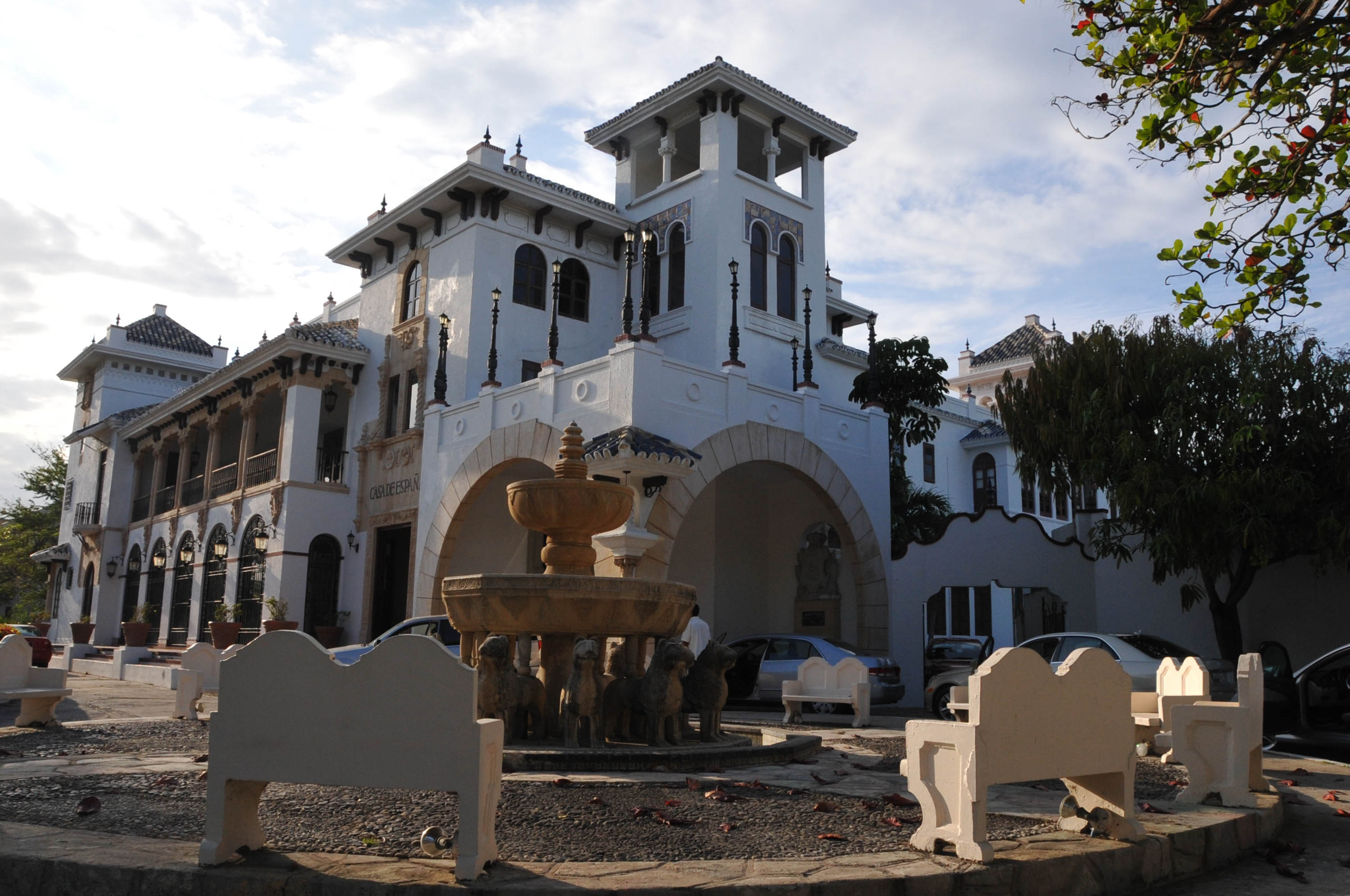 CASA DE ESPANA in San Juan, Puerto Rico; DESIGNED IN 1932 BY PEDRO DE CASTRO FOR A PRIVATE CIVIC AND CULTURAL ORGANIZATION IN SPANISH MOORISH STYLE. IT IS NOW AN EXCLUSIVE UPSCALE RESTAURANT